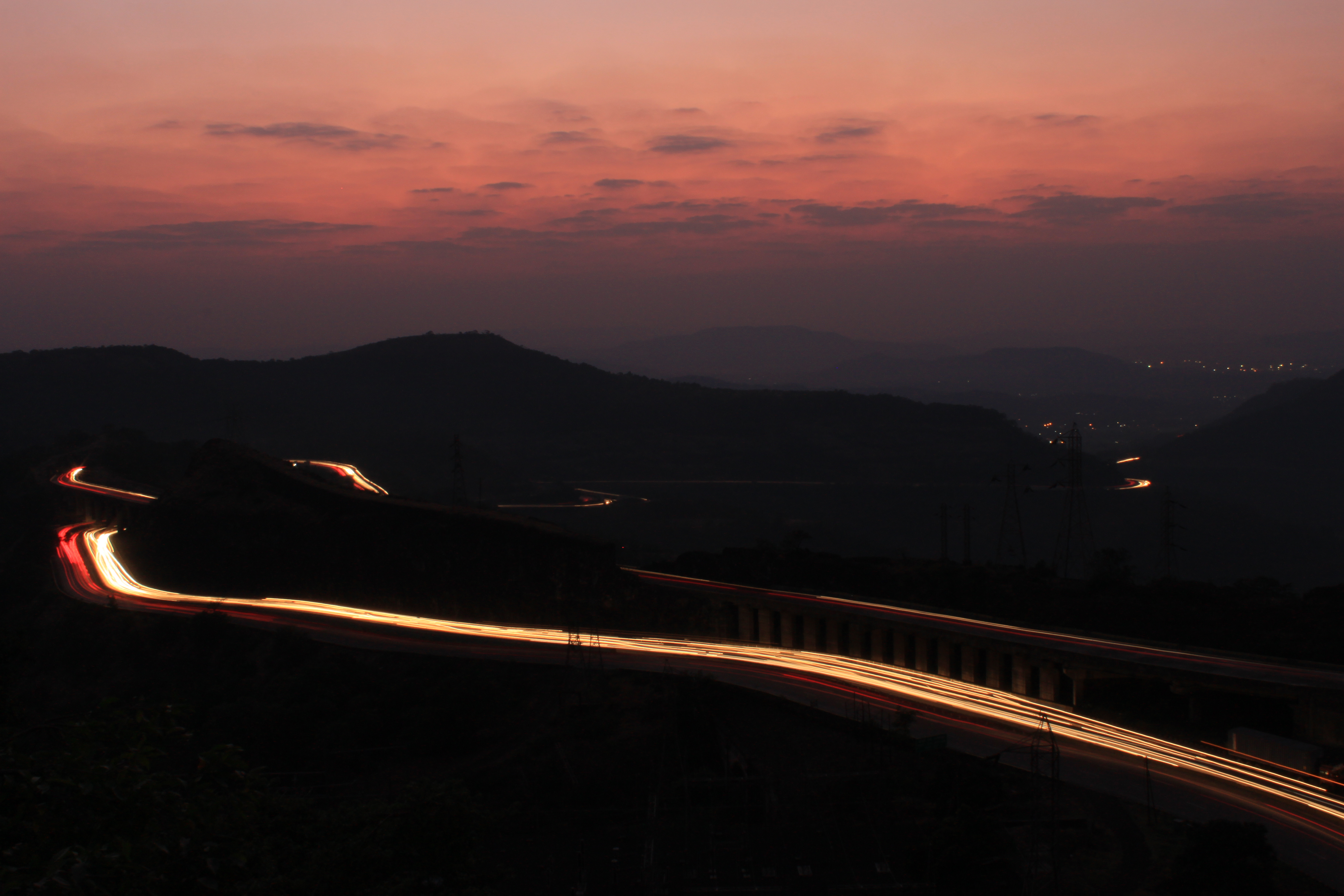 Mumbai Pune expressway as seen from Khandala